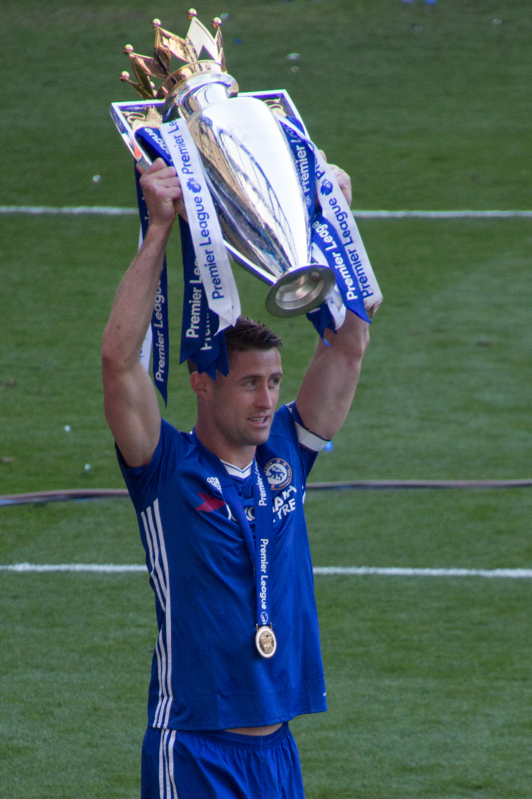 21.5.17 Post Match Celebrations